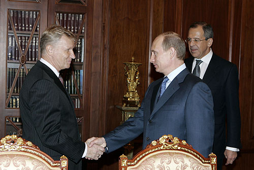 THE KREMLIN, MOSCOW. Meeting with the newly appointed Russian ambassadors to Kazakhstan and Kyrgyzstan. With Russian ambassador to Kyrgyzstan Valentin Vlasov.